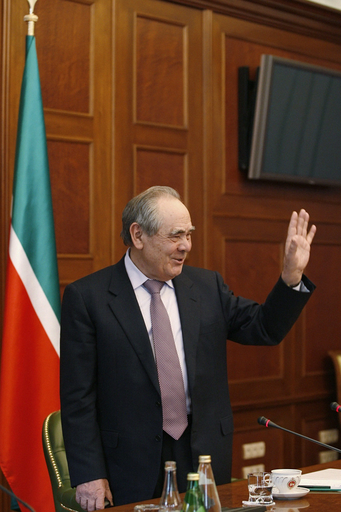 “News conference by Tatar President Mintimer Shaimiev”. Tatar President Mintimer Shaimiev giving a news conference at the Kazan Kremlin.